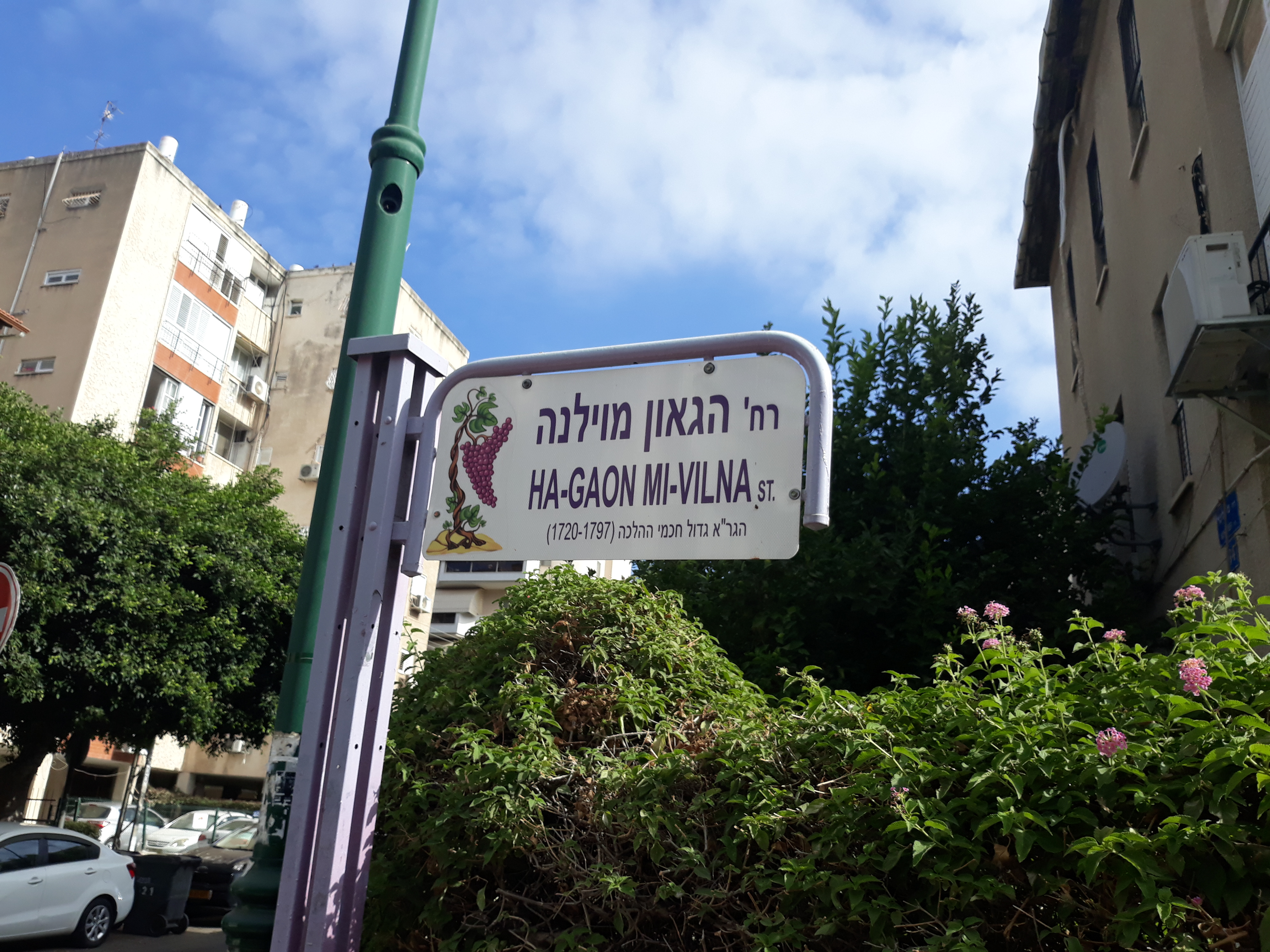 Ha-Gaon mi-Vilna Street in Rishon LeZion